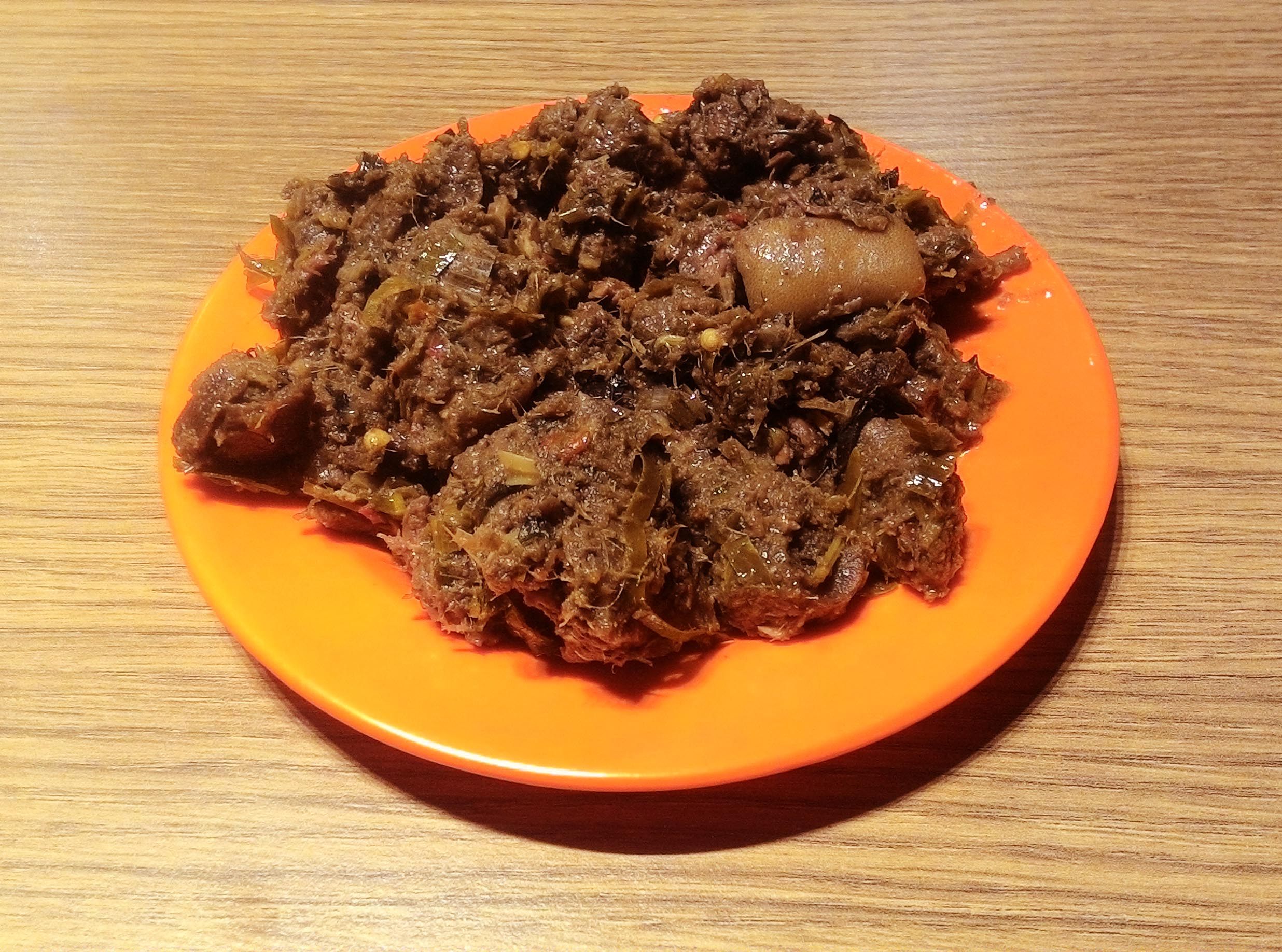 Rintek Wuuk or often abbreviated as RW, is a dog meat prepared in rich spices dish, a specialty of Minahasan (Manado) cuisine from North Sulawesi, Indonesia. The dish is served in a Manado restaurant in Jakarta, Indonesia.